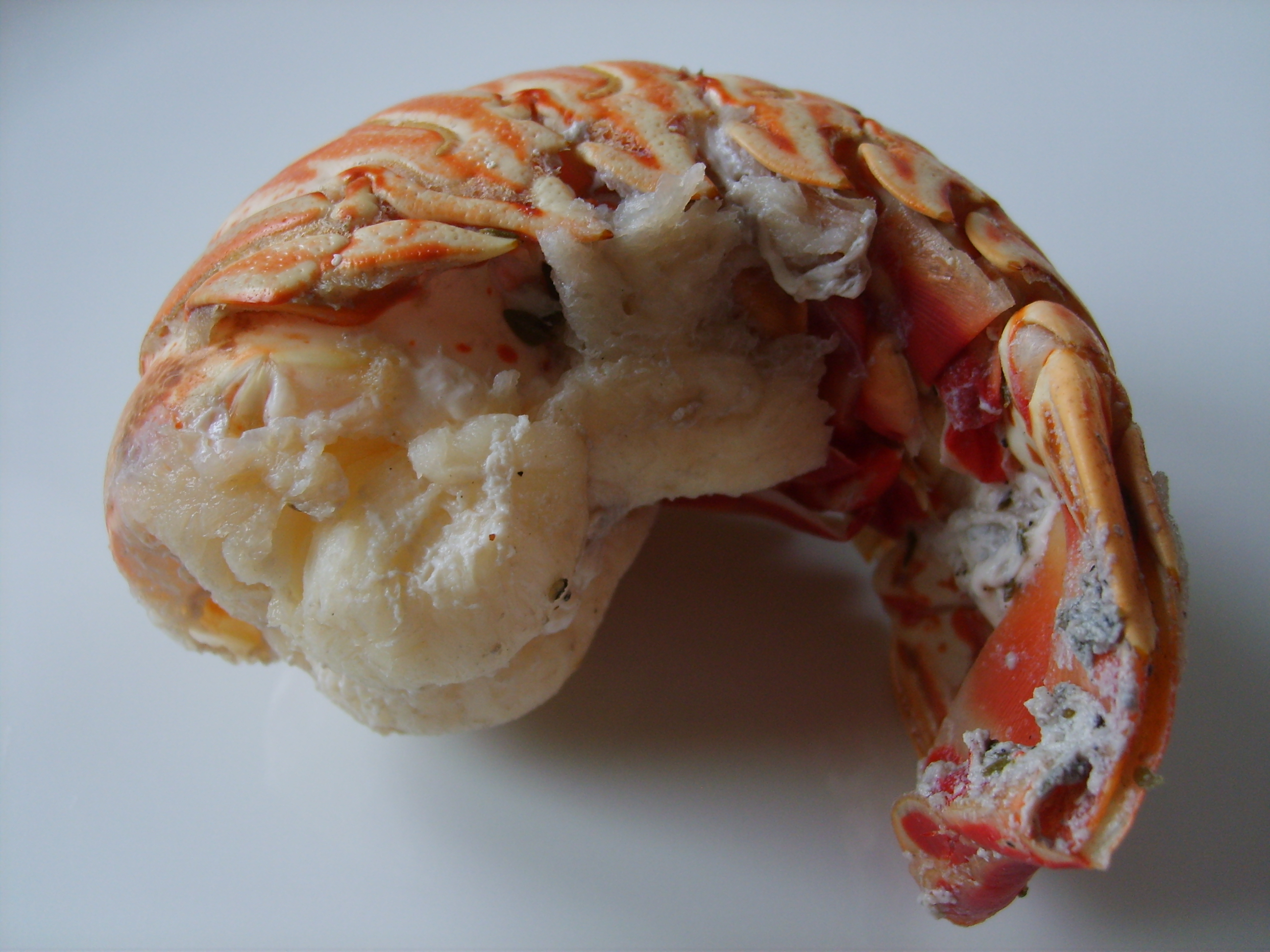 Spiny lobster-tail. Publish by= User:Stephane8888 Self made